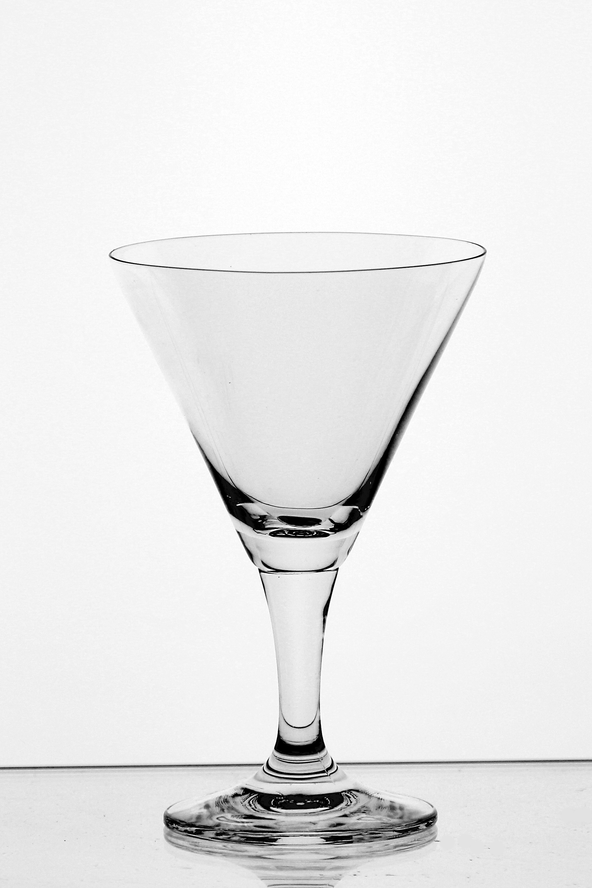 Cocktail glass